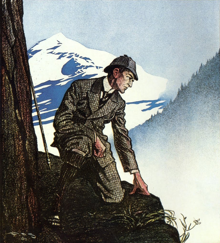 Sherlock Holmes at Reichenbach Falls, by Frederick Dorr Steele, cover of Collier's Weekly, September 26, 1903